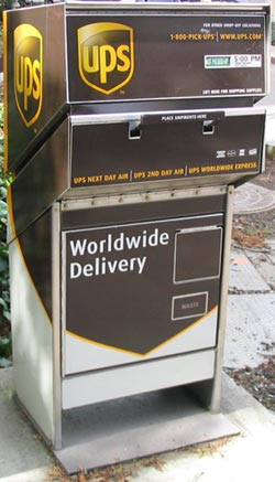 Photo taken by User:Minesweeper on March 3, 2004 and released into the public domain.